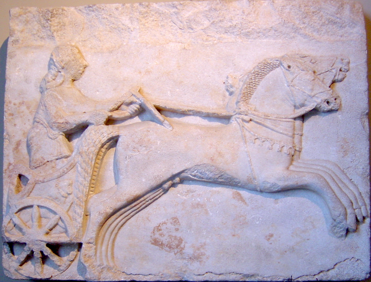 Istanbul - Archaeological Museum - Greek charioteer, 6th century b.C., from Cyzicus. Picture by: Giovanni Dall'Orto Mary 28 2006.